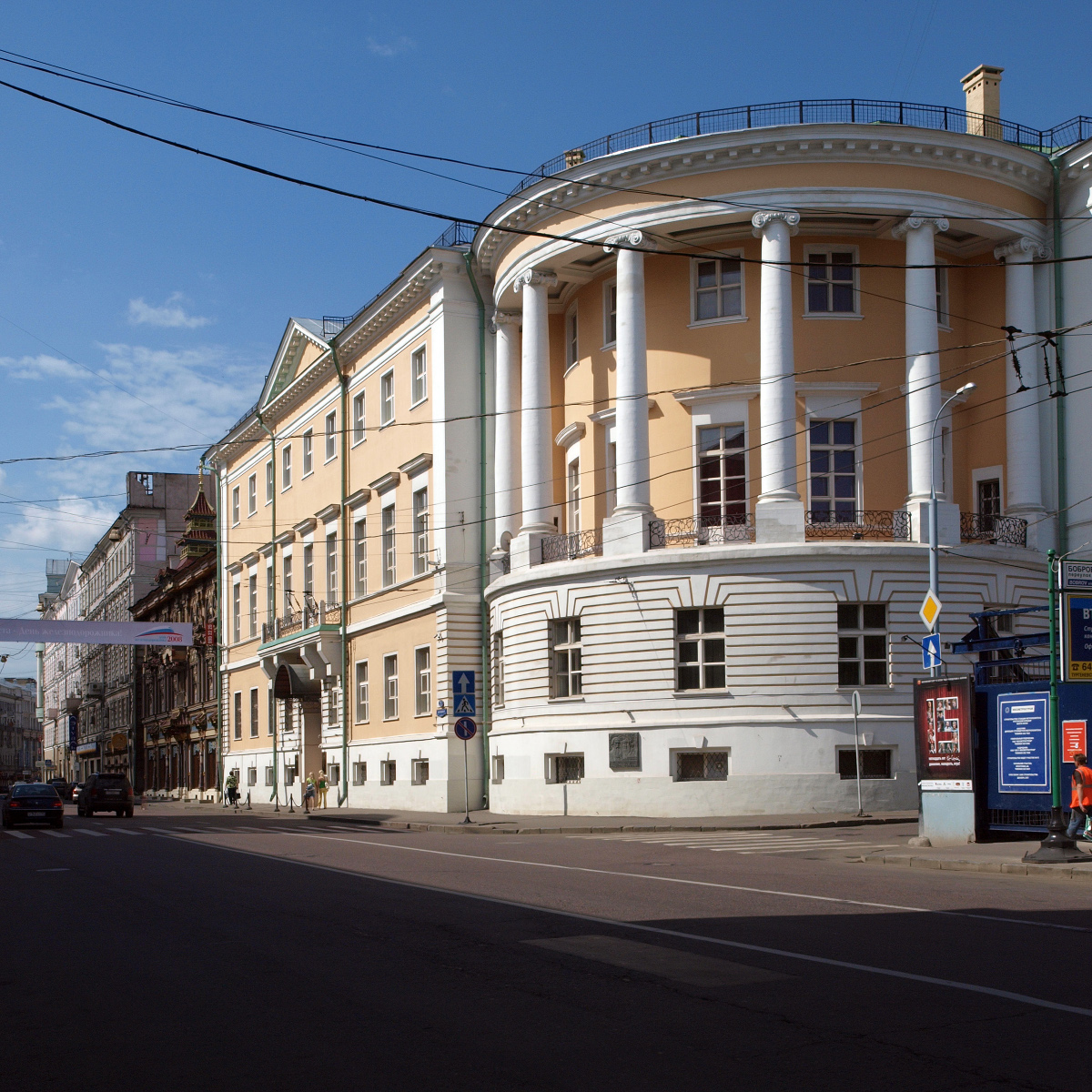 Moscow, Myasnitskaya Street.